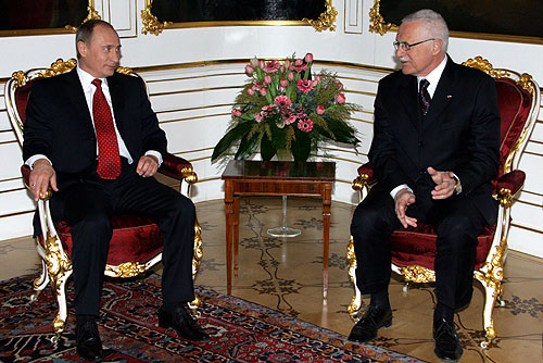 PRAGUE. Discussion with the Czech President, Vaclav Klaus.